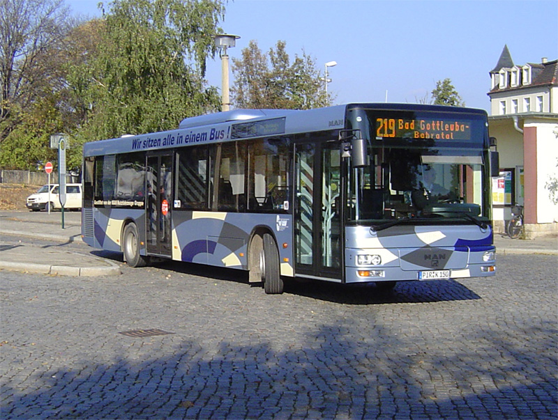 MAN NL263 city bus in Pirna, Germany. Oberelbische Verkehrsgesellschaft Pirna-Sebnitz mbH company.